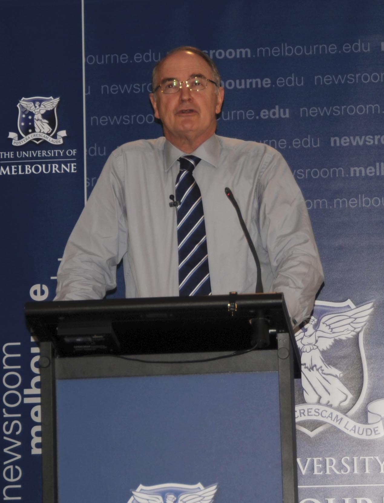 Ross Garnaut speaking at "The Future of Carbon Trading in Australia" public lecture at the University of Melbourne